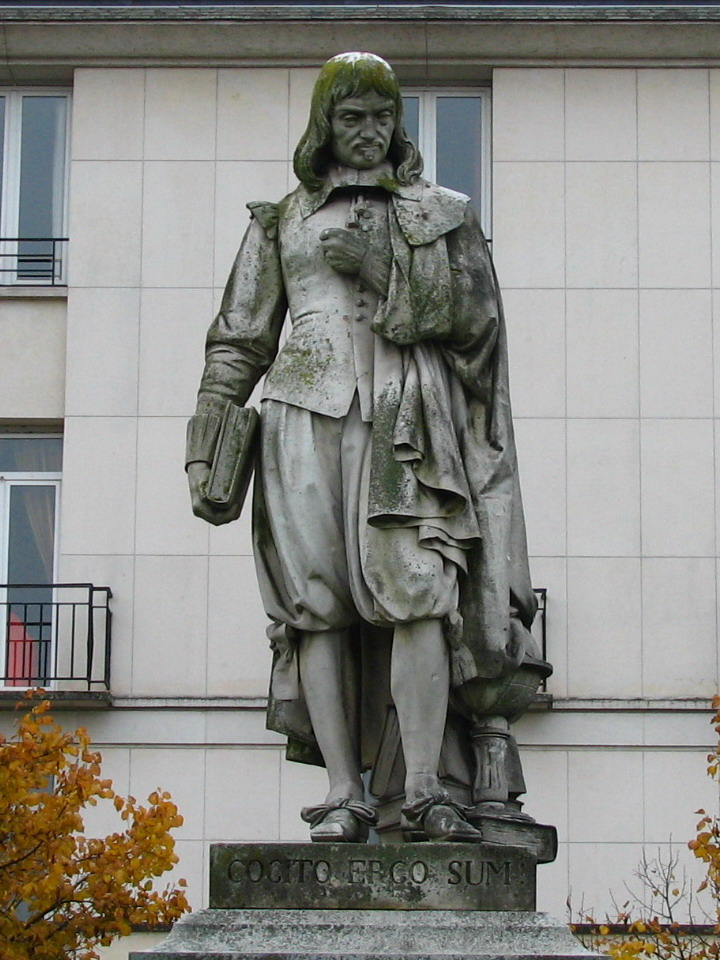 Statue of René Descartes with his famous statement: "Cogito ergo sum". The statue is placed in Anatole France square, Tours, France.